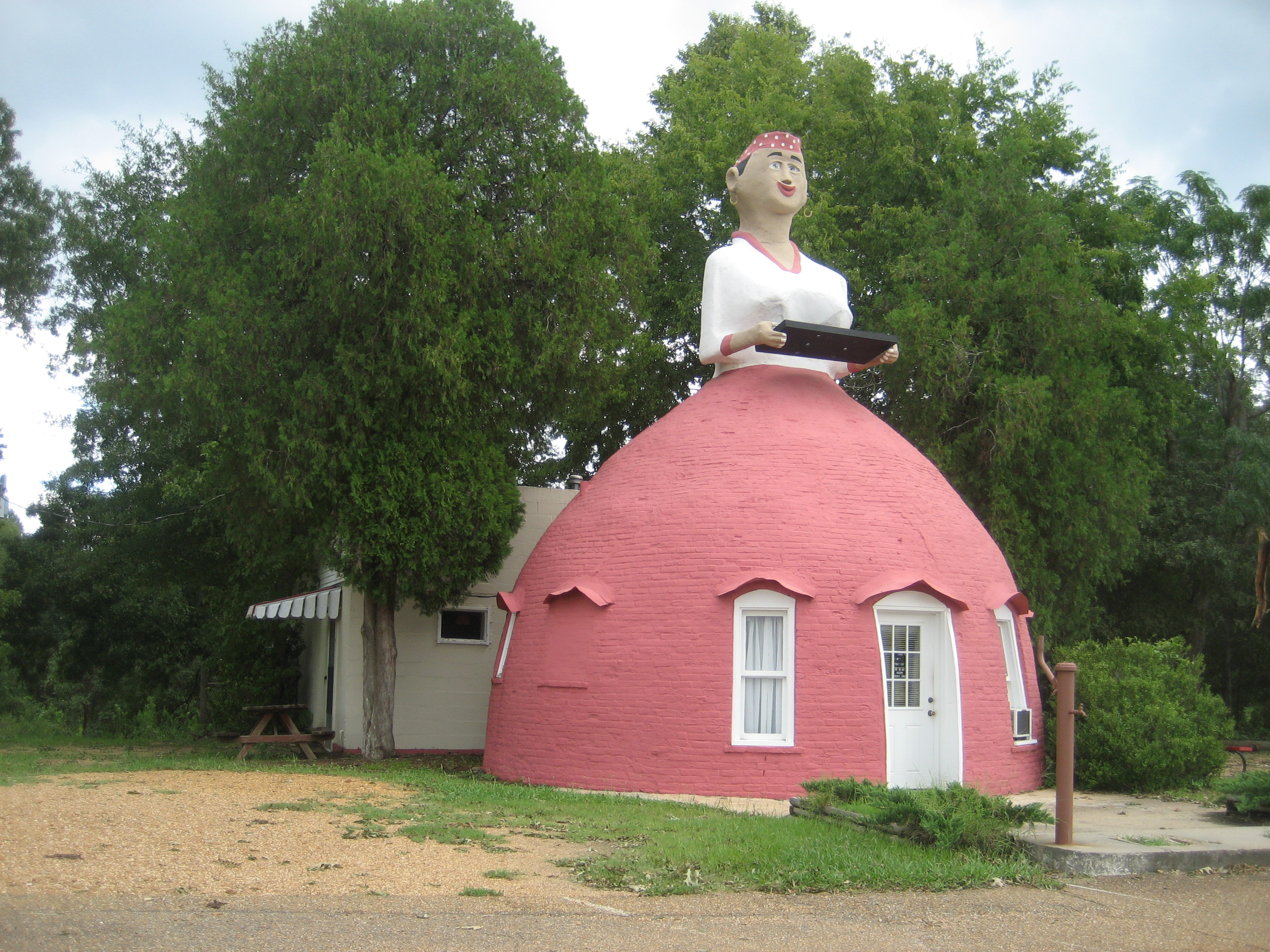 "Mammy's Cupboard" restaurant, Highway 61, Adams County, Mississippi (about 5 miles south of Natchez, Mississippi). Restaurant constructed in 1940 with unusual novelty architecture.